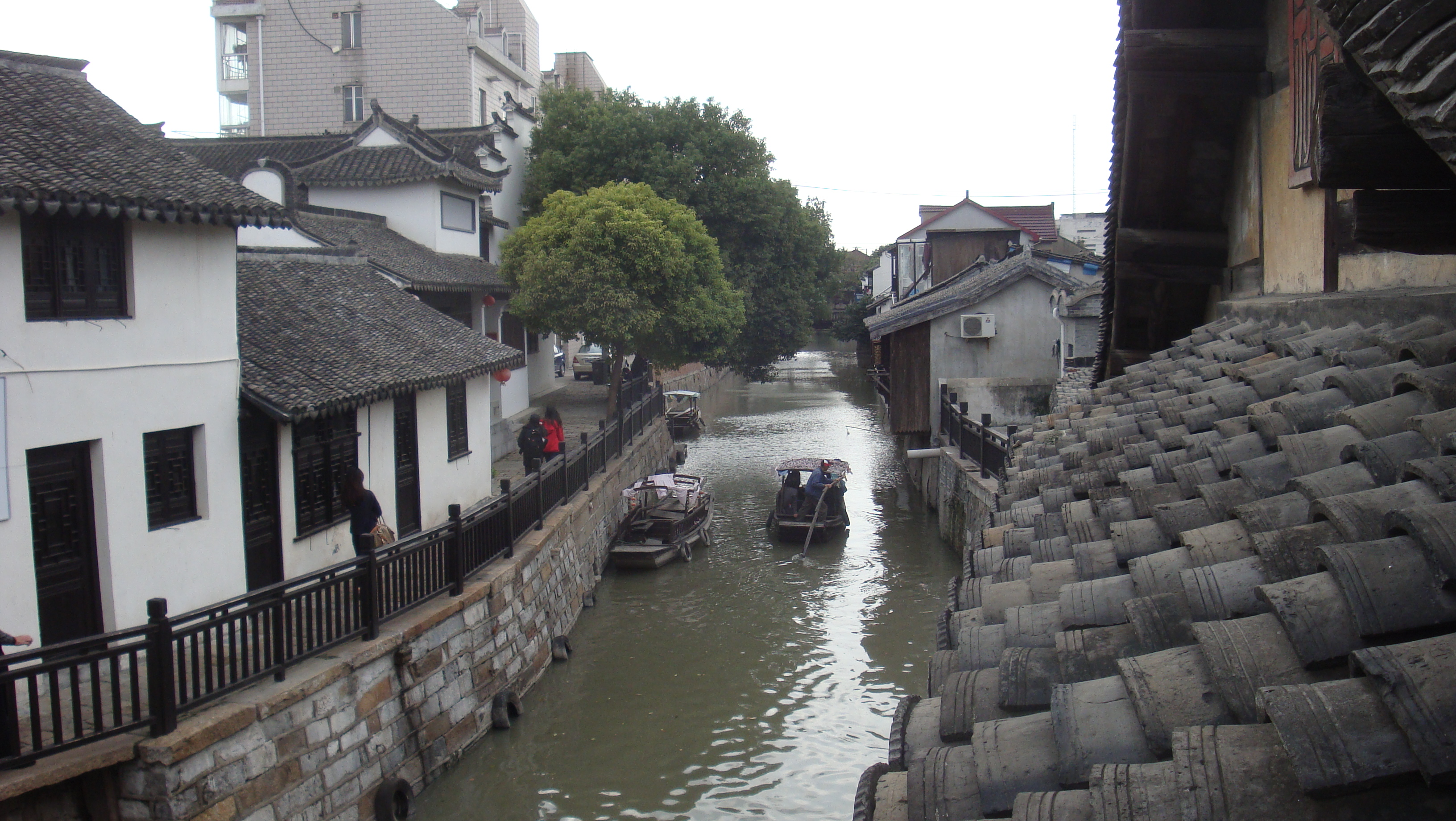 Xinchang,Pudong,Shanghai